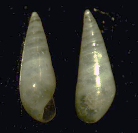 Eulima algoensis Smith, 1901; Mozambique